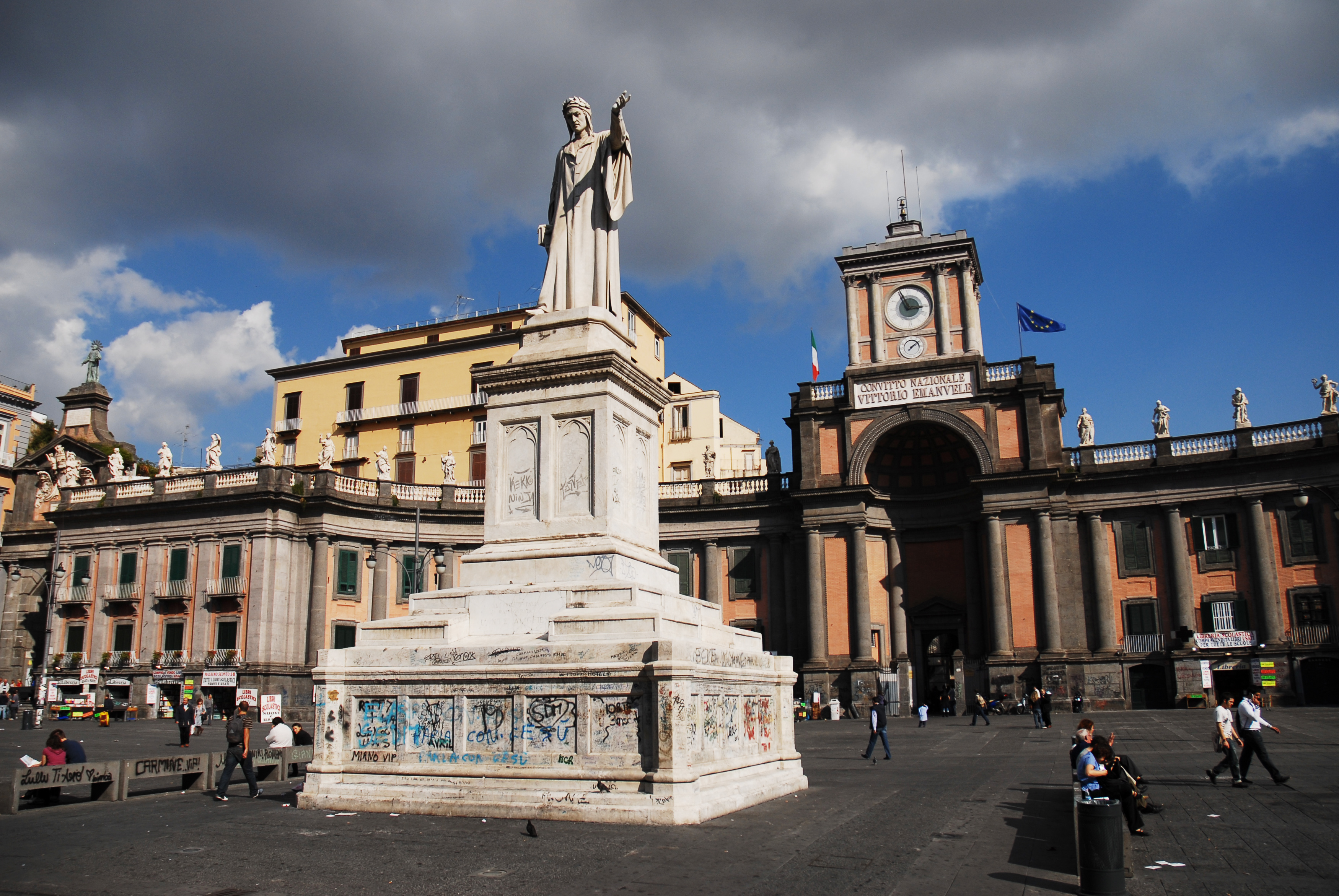 Monument of Dante Alighieri in Piazza Dante Napoli. Campania, Italy, Southern Europe.